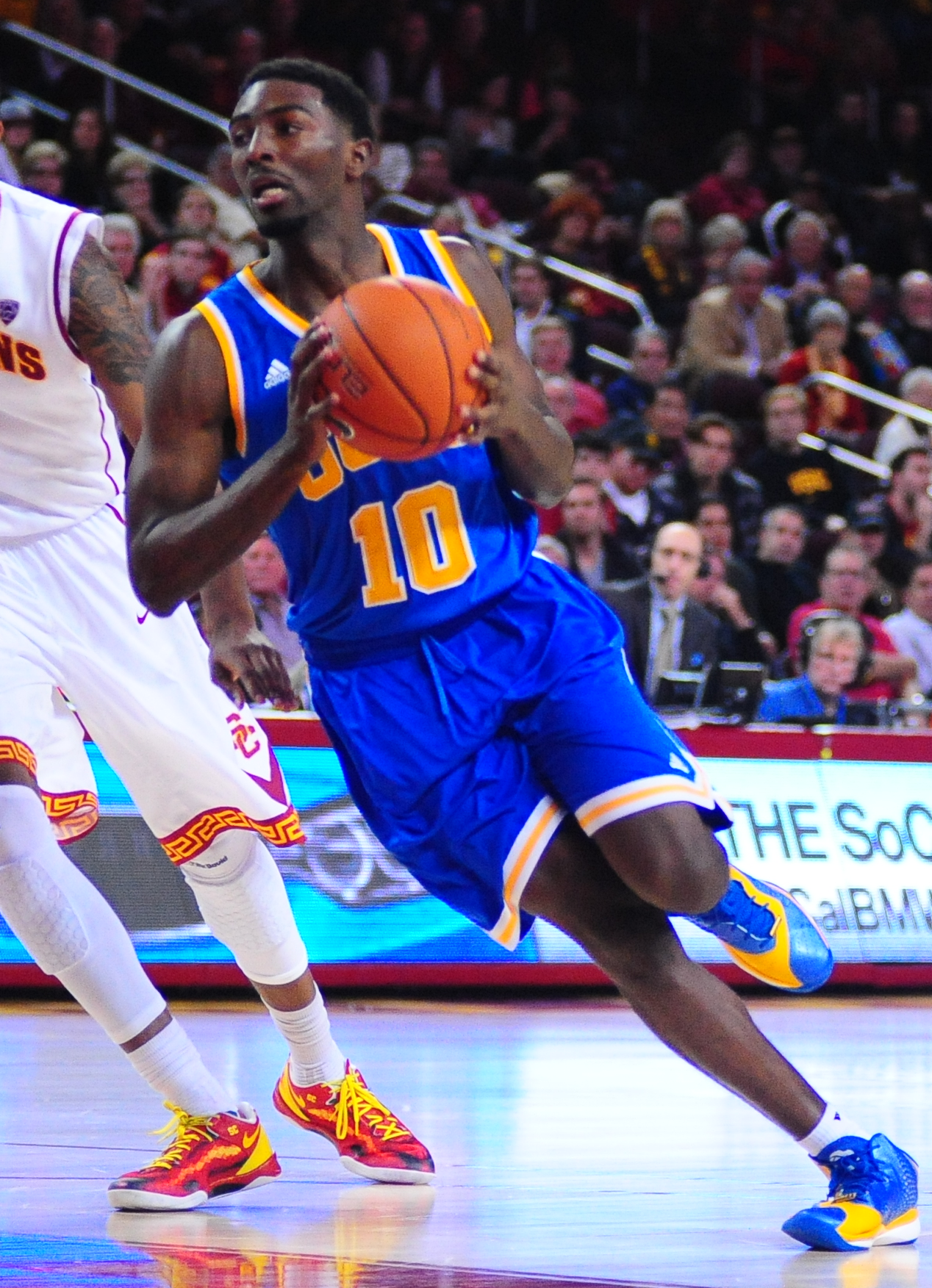 Isaac Hamilton (No. 10) of UCLA Bruins with basketball against USC Trojans